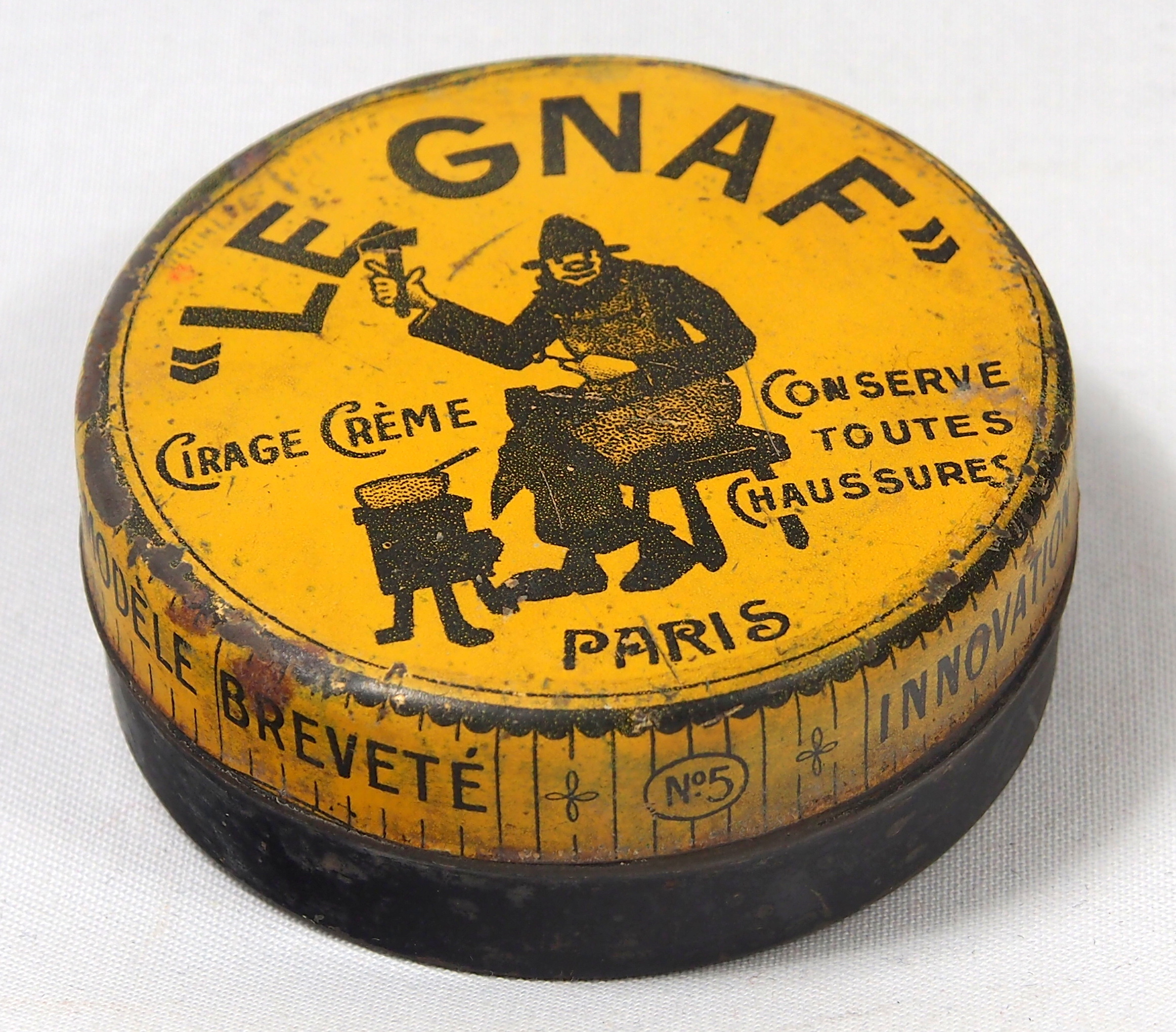 Very old packaging of a Dutch product that is not produced and not sold any more. Photographed at a collector of Droste. For info see tincollectors.nl or